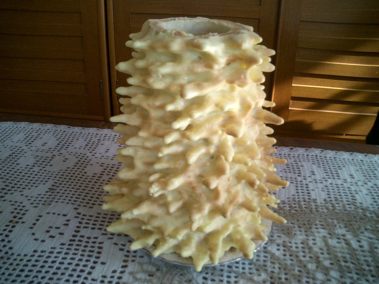 Traditional Lithuanian cake. Photo by myself.